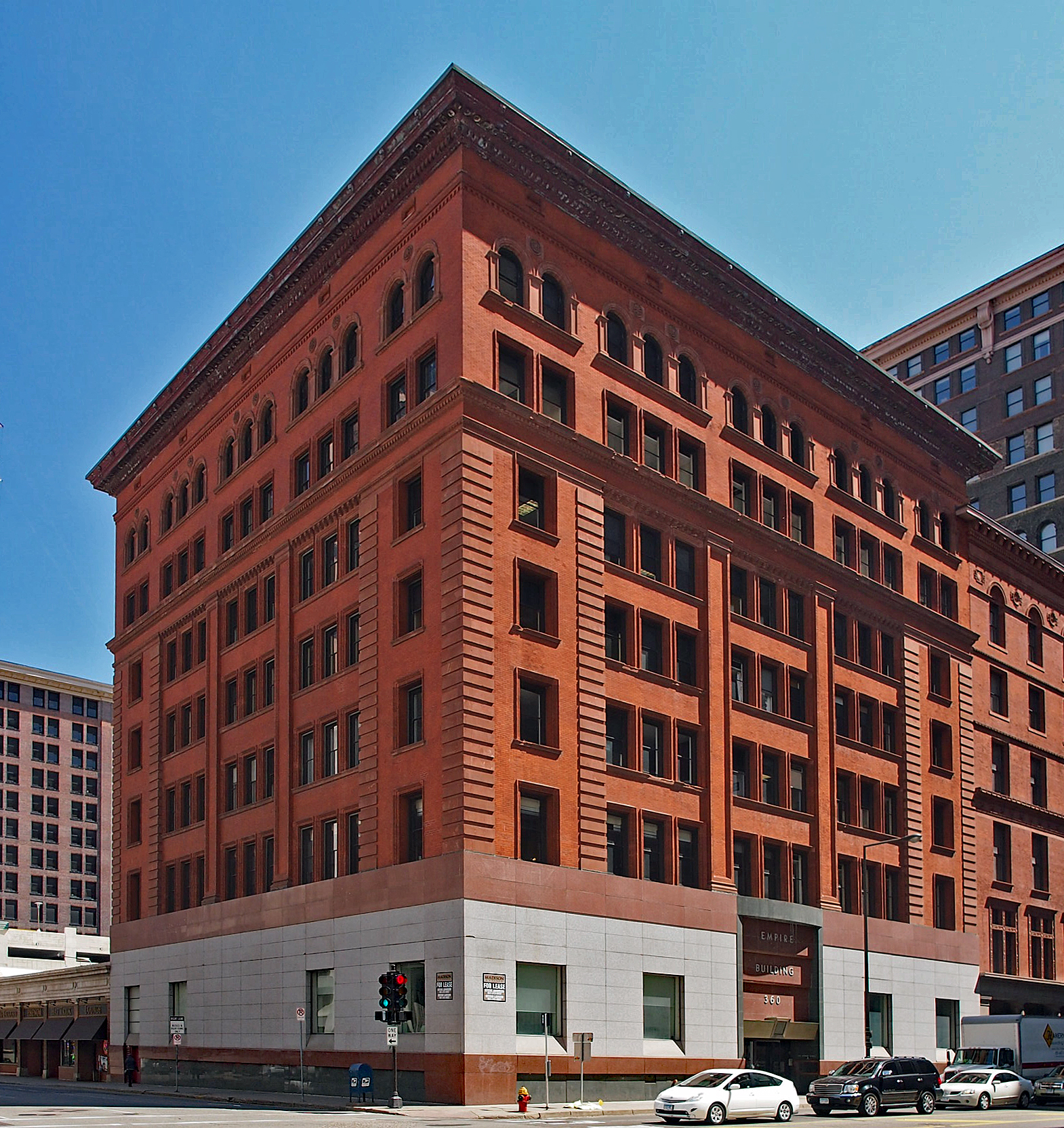 Manhattan Building (now the Empire Building), 360 N Robert St, St Paul, Minnesota, USA. Viewed from the west.